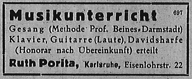 Advert of opera singer and composer Ruth Poritzky (alias Porita), b. 1902 Berlin, d. 1942 Auschwitz.